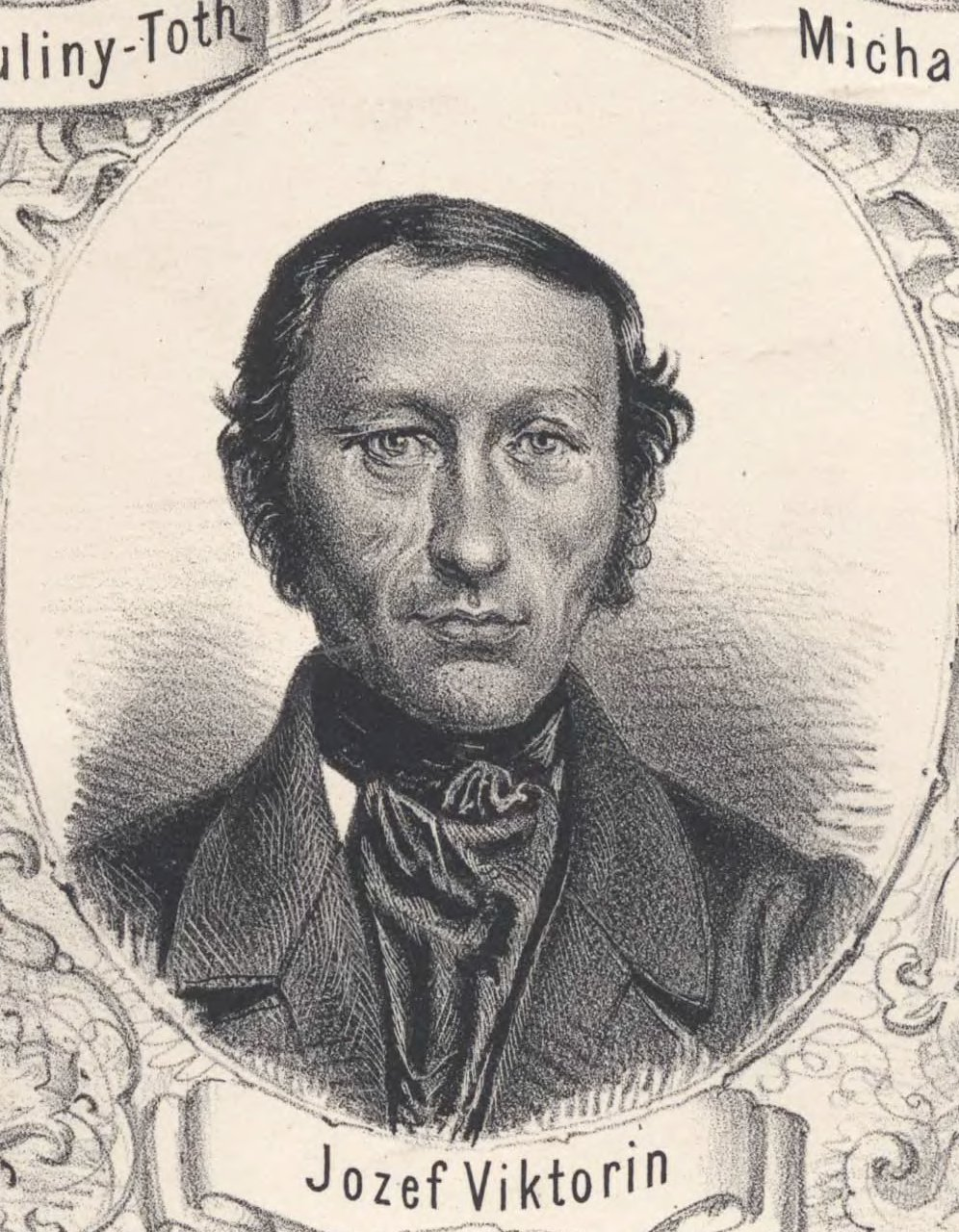 Portrait of Jozef Karol Viktorin (1822-1874), Slovak priest, publisher and journalist. Cropped from a gallery of Slovak celebrities.